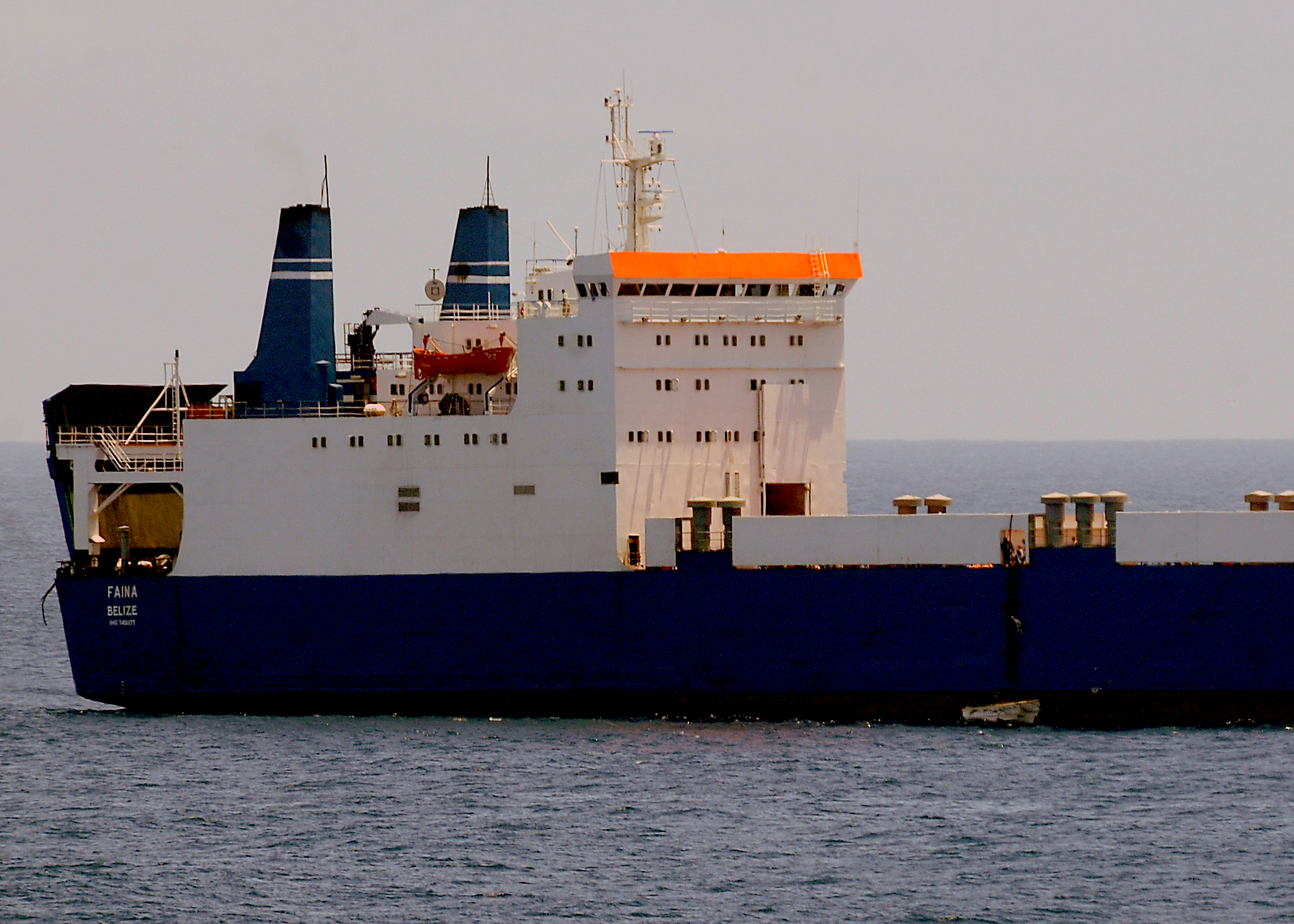 MV Faina, hijacked by the Somali pirates.